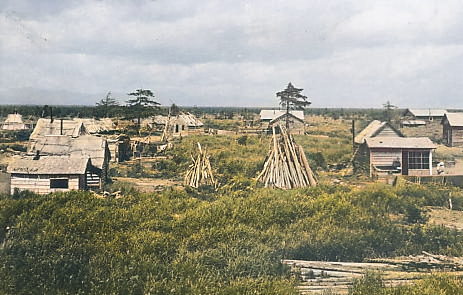 Otasu no Mori (The aboriginal settlement in Karafuto)